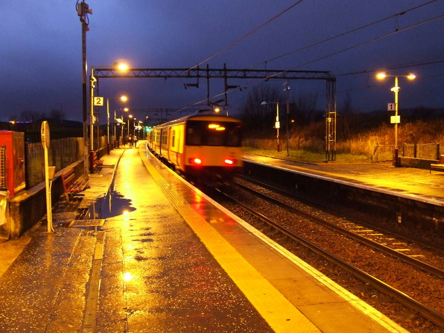 Yoker railway station, West Dunbartonshire, Scotland